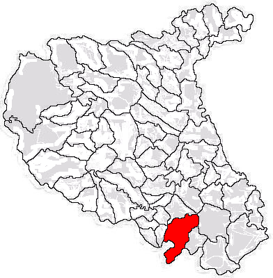 Limits of commune within Vrancea County